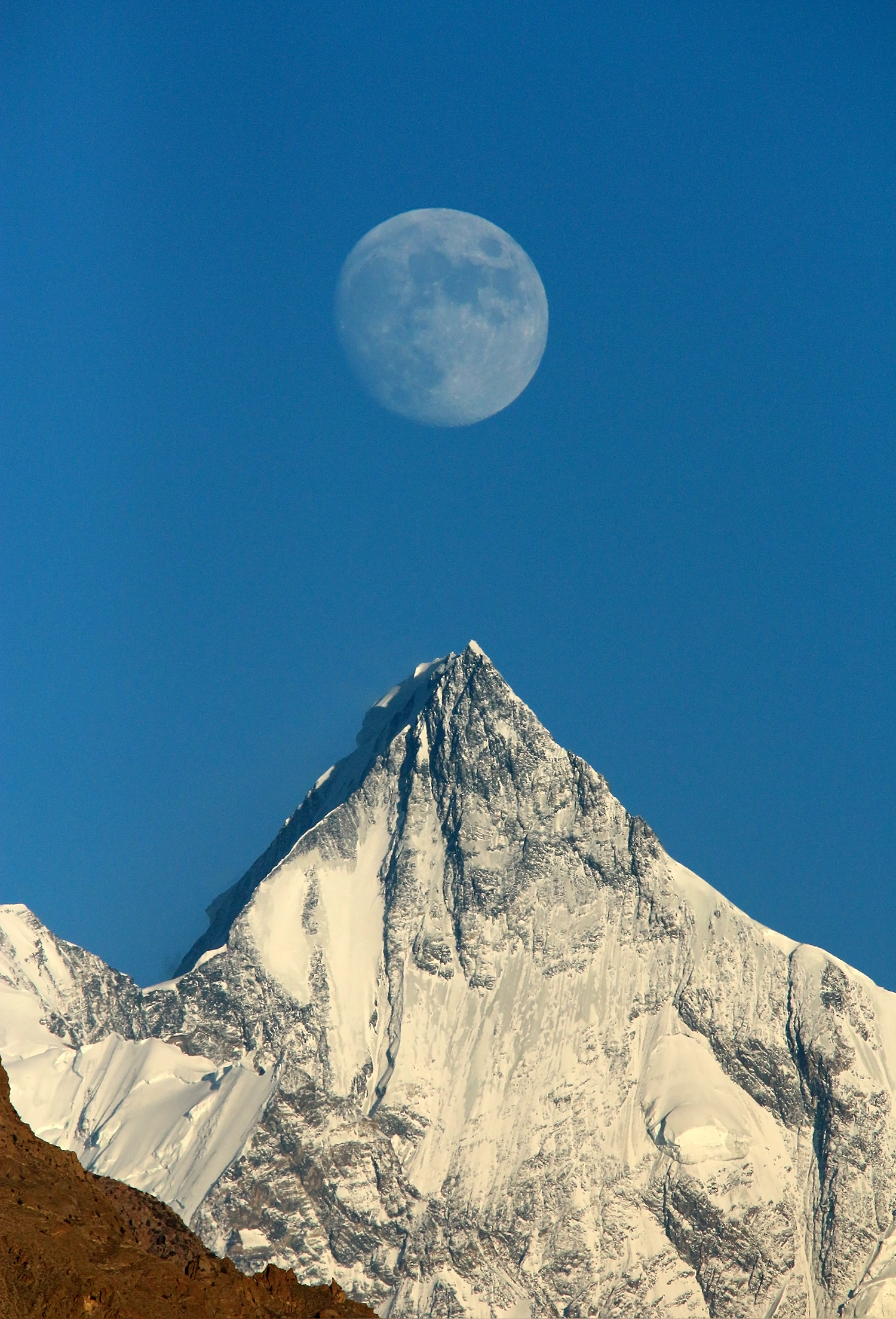 An almost full moon rising above Lupghar Sar (7200 m) viewed from Aliabad, Hunza Valley